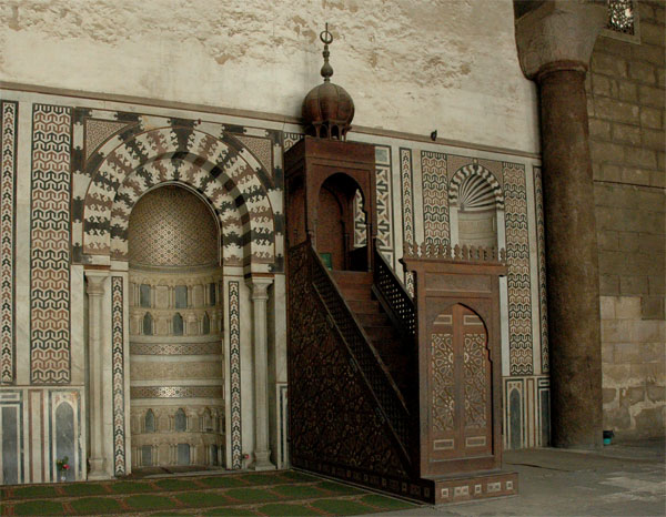 Al-Nasir Muhammad Mosque. Cairo. Egypt